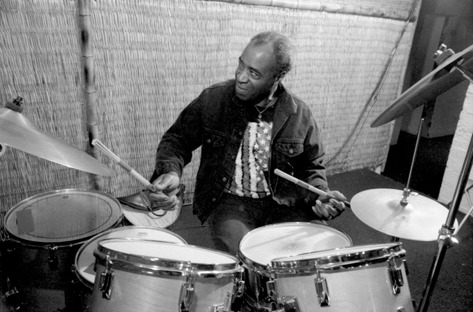 Rashied Ali at Koncepts Cultural Gallery, Oakland CA 7/26/91 in duo with Billy Bang. Photo by Brian McMillen /